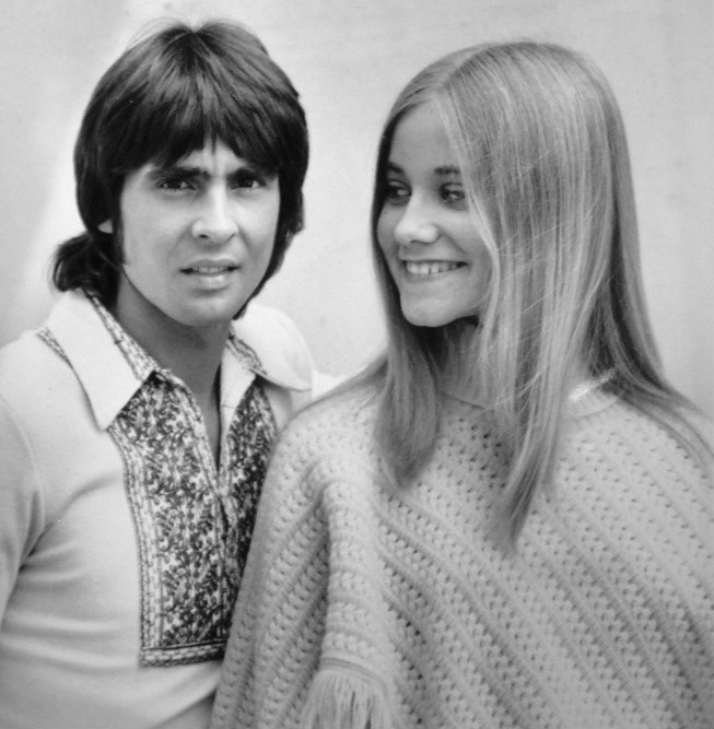 photograph: Davy Jones and Maureen McCormick from The Brady Bunch